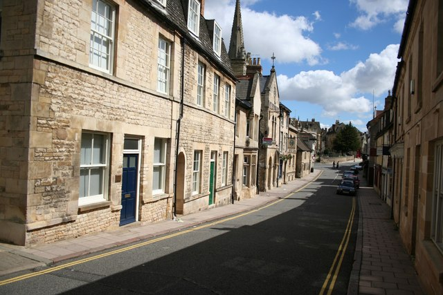 All Saints' Street. Looking east with the spire of All Saints' church visible.